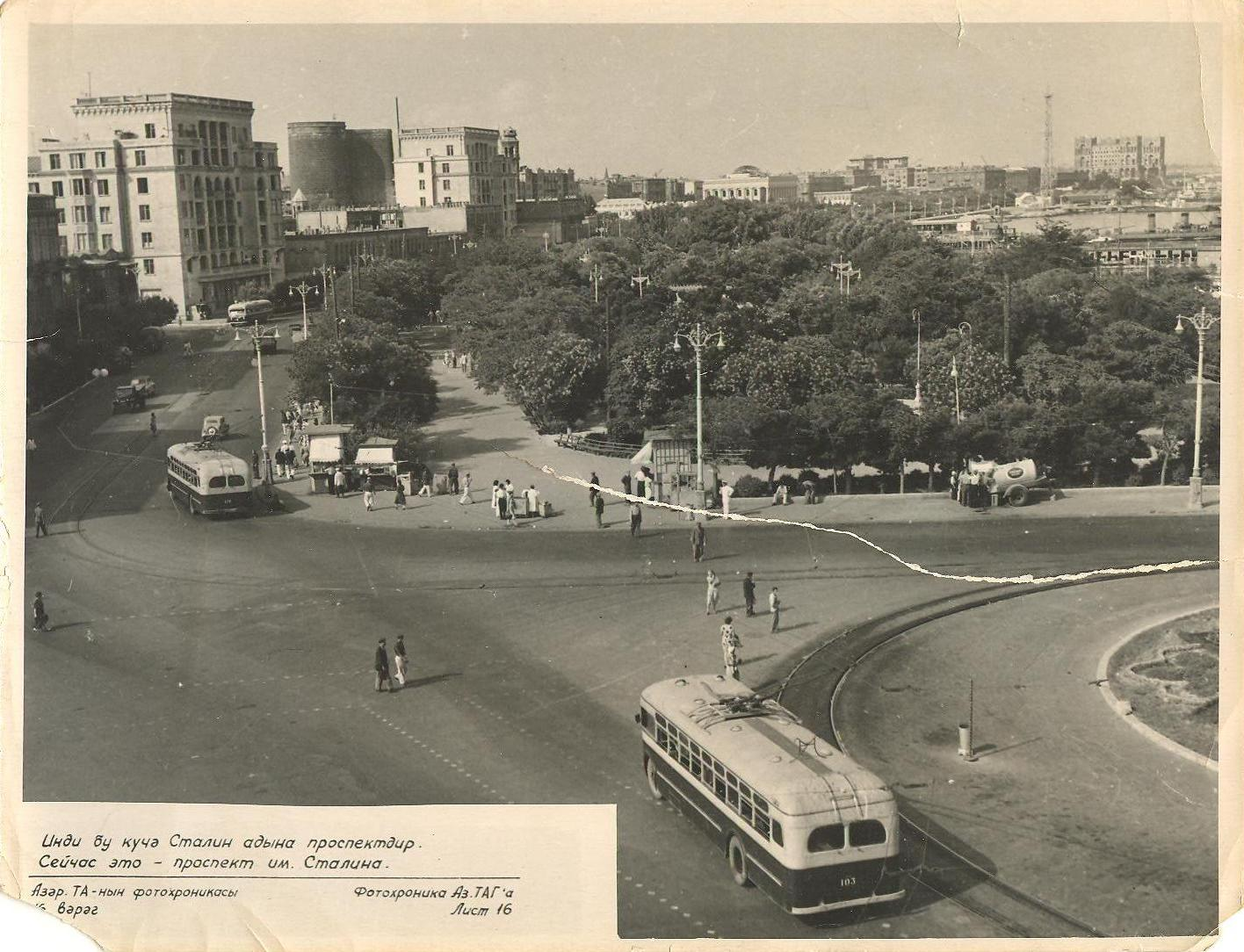 Old Baku. Old Baku